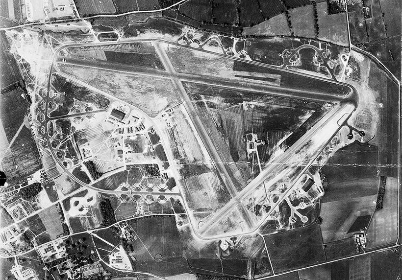 Aerial photograph of Glatton airfield, 9 May 1944. Photograph taken by the 7th Photographic Reconnaissance Group, US/7GR/LOC334. English Heritage (USAAF Photography).